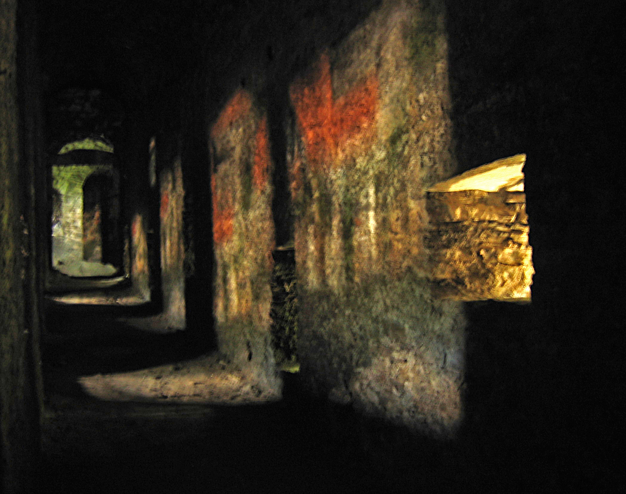 The effect of pinhole cameras can be observed at this wall opposite some balistrarias in the Castelgrande of Bellinzona. You can see the red roofs of the houses and the green trees that lie behind the balistrarias being projected onto the wall.